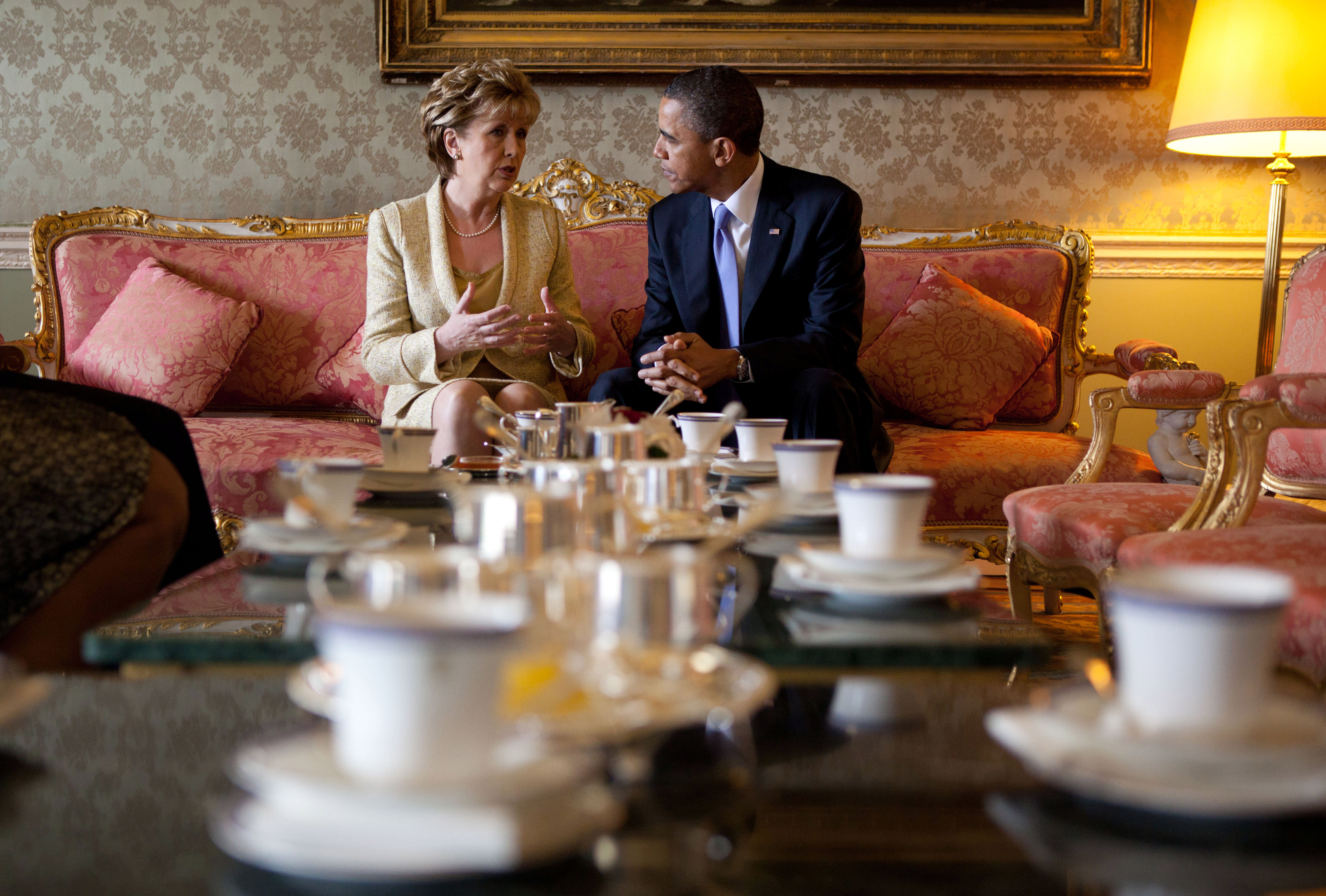 United States President Barack Obama talking to Irish President Mary McAleese in the Drawing Room of Áras an Uachtaráin in Dublin, Ireland.